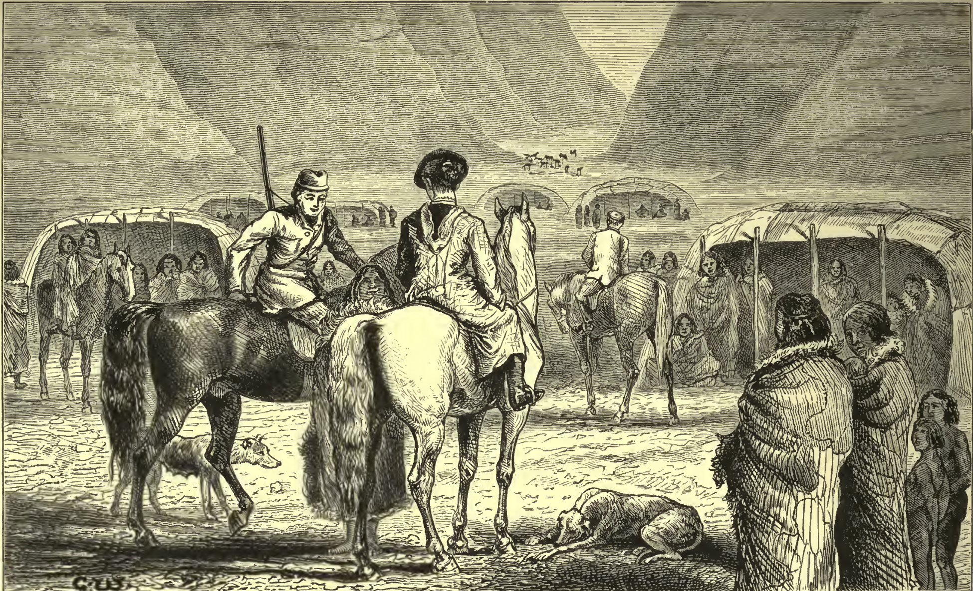 Lady Florence Dixie is seated on her horse, back to the viewer, facing another rider. Around them stand a group of native onlookers, behind them are the dwellings of an Indian village.